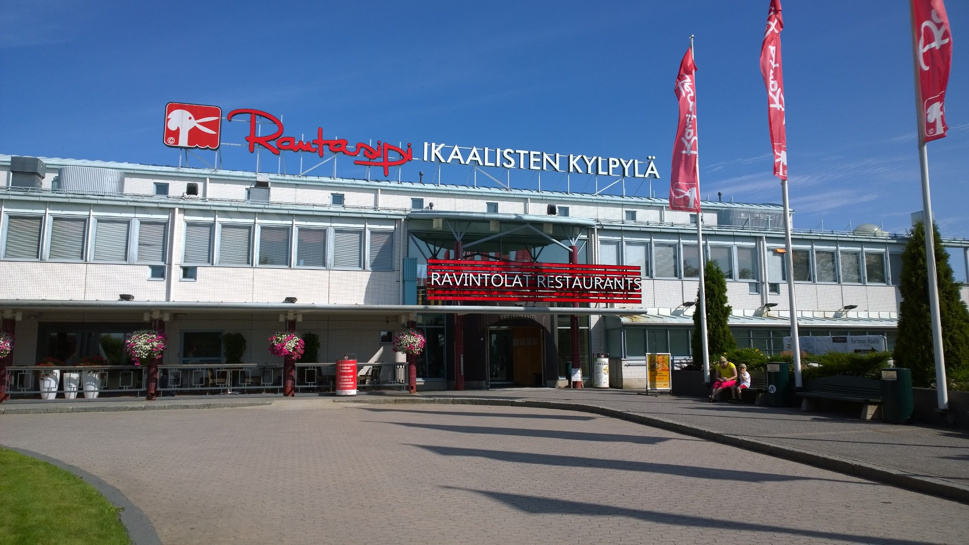 Spa Hotel Rantasipi Ikaalinen